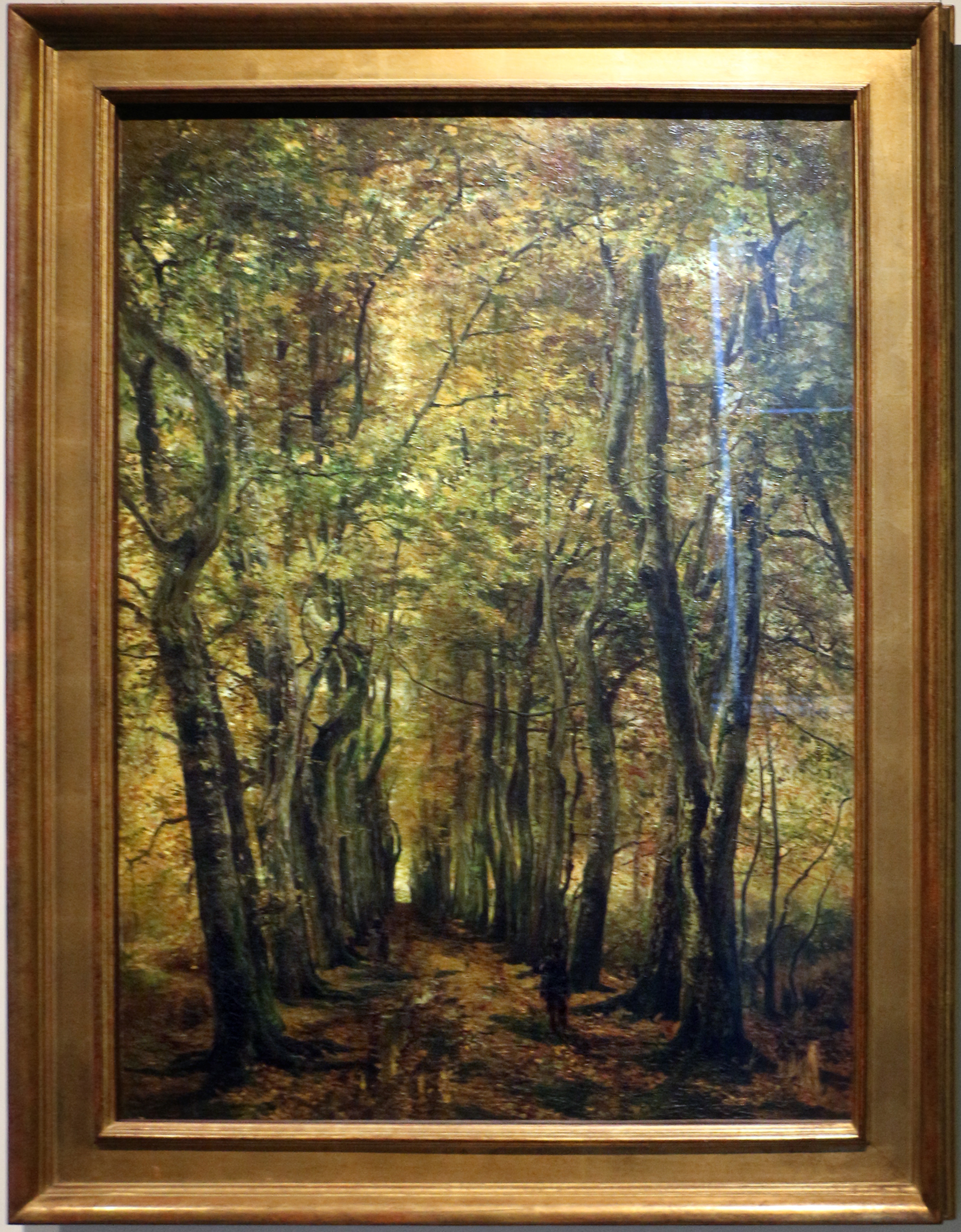 Paintings in the Fin de Siècle Museum